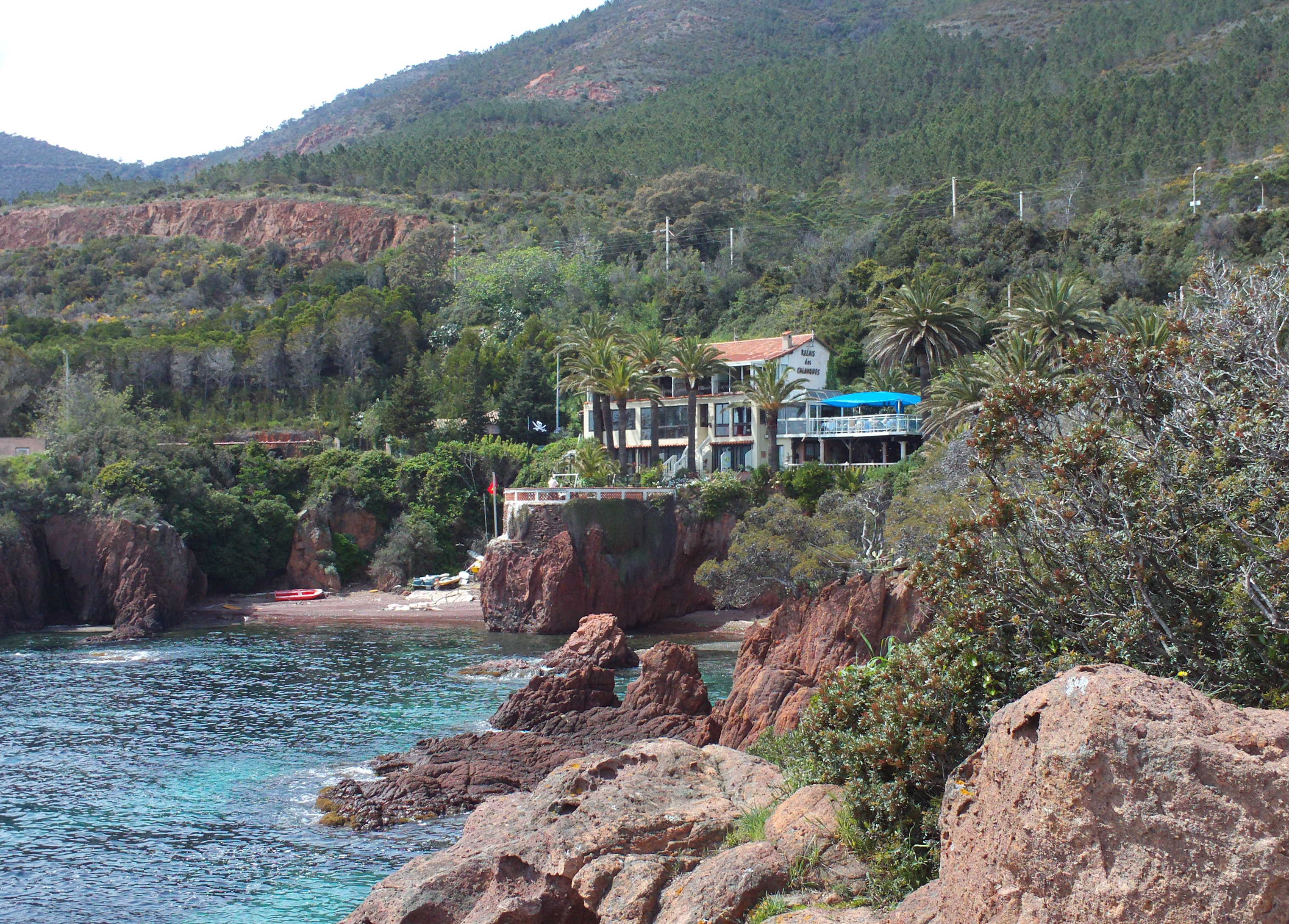 Les calanques (the inlets), Le Trayas (at Forêt Domaniale de l'Estérel), Commune de Saint Raphael, Var, Provence, France.